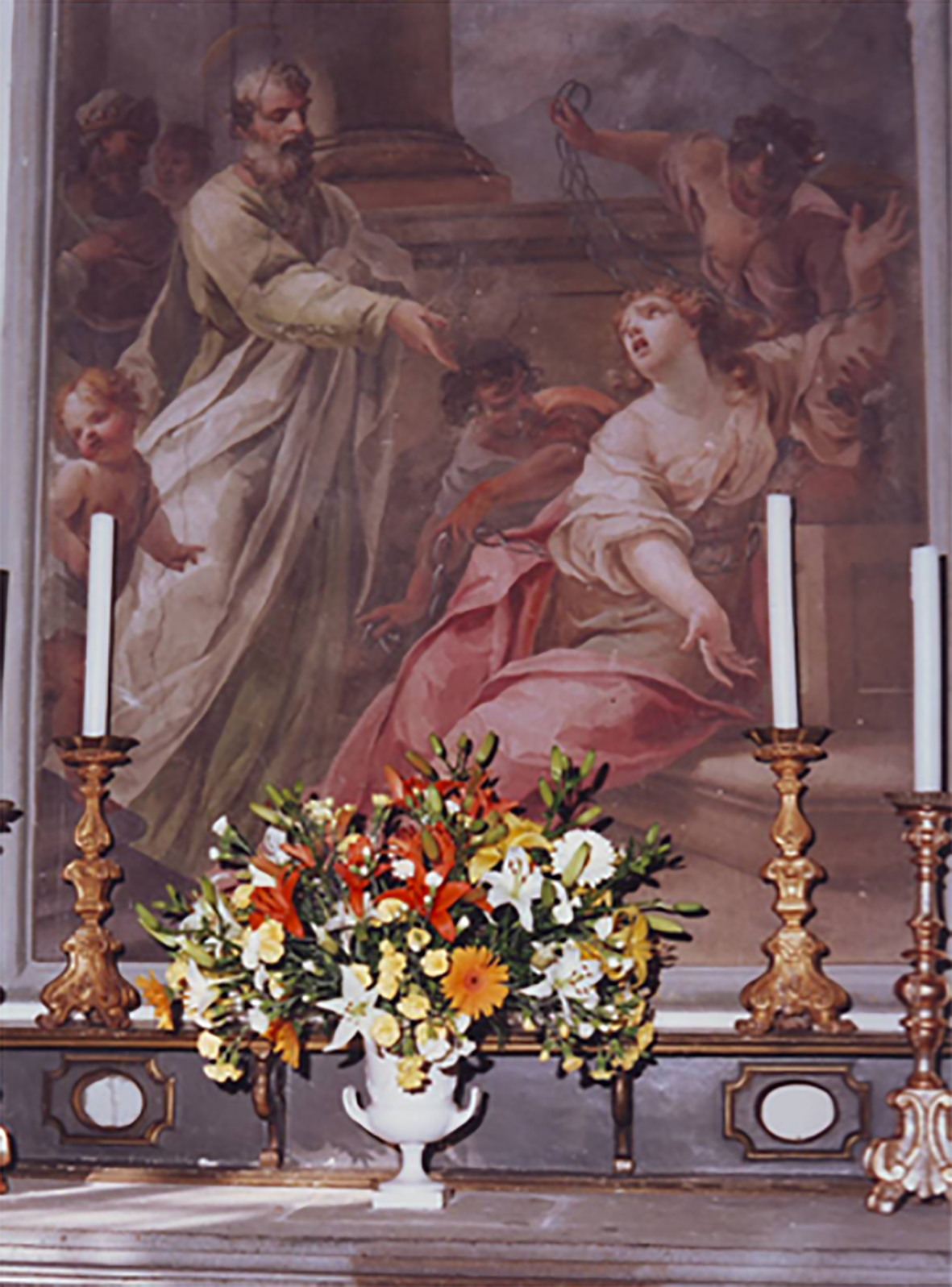 Church of the Montozzi Castle, fresco rapresenting 'Saint Bartholomew relieving of the devil the wife of the king of Amenia', attributed to the florentine painter Giovanni Camillo Sagrestani